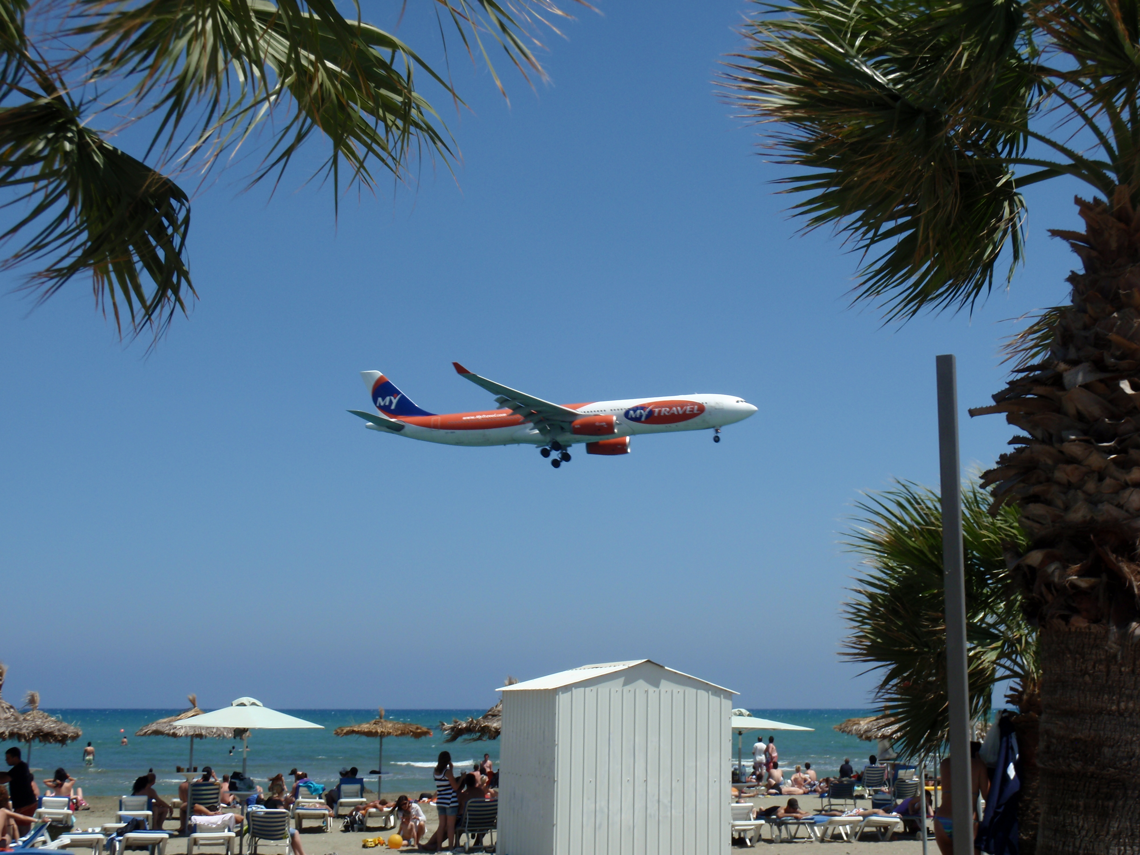 Airplane Landing by Georgy